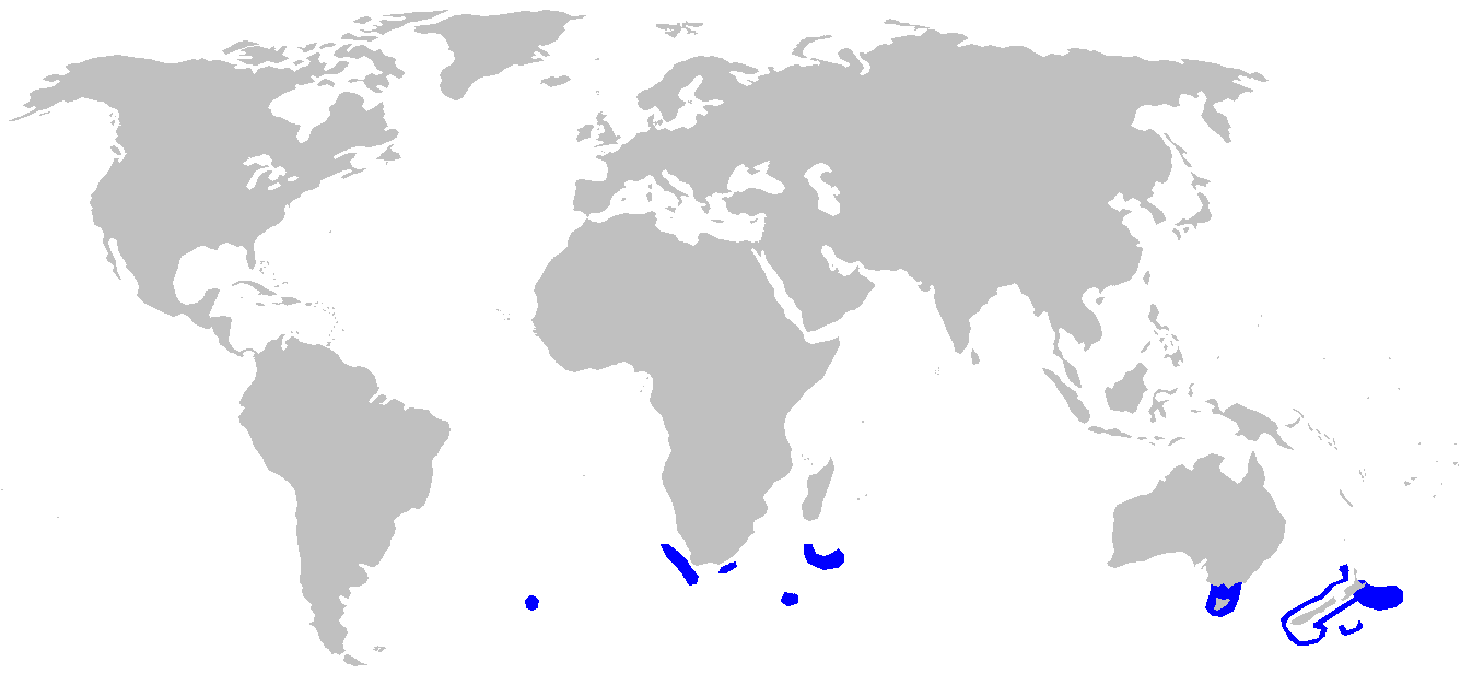 Distribution map for Etmopterus baxteri